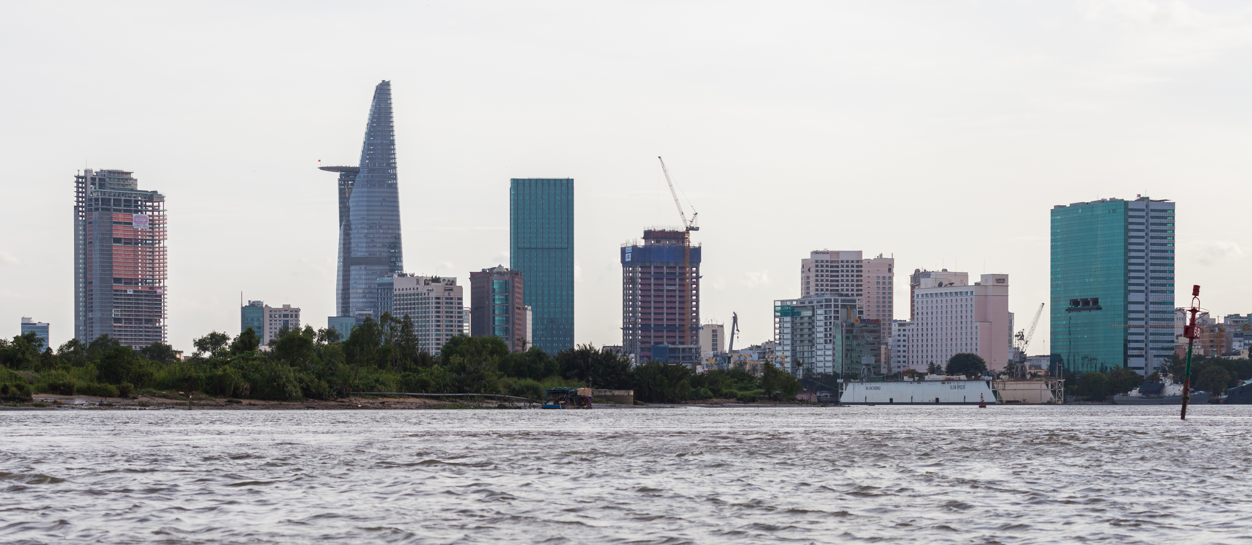 Saigon river, Ho Chi Minh City, Vietnam